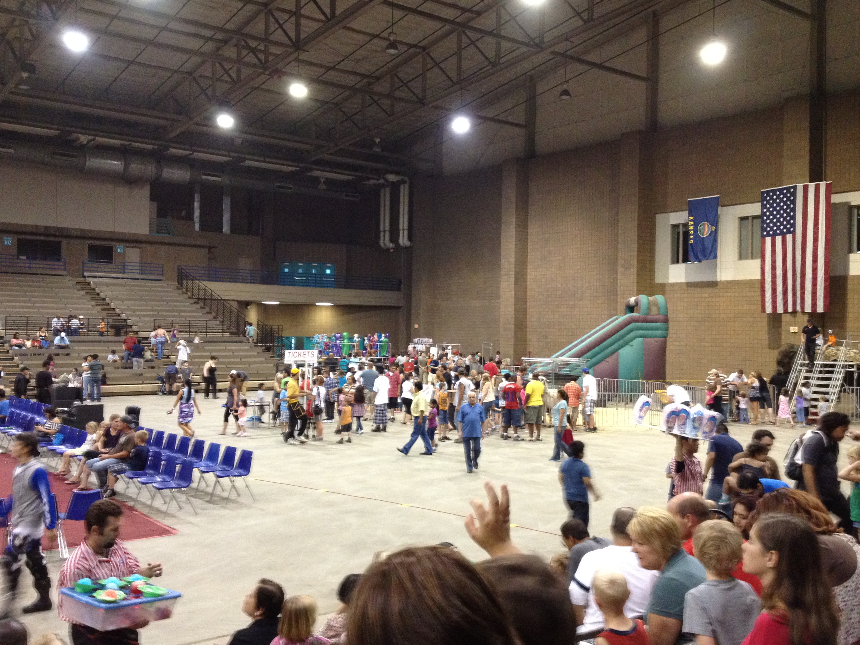 Interior of Hale Arena in Kansas City, Missouri from East bleachers facing northwest toward exit